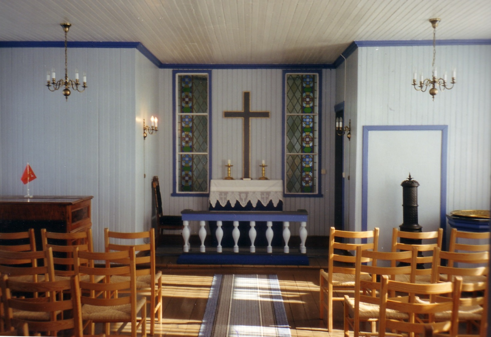 Interior of the Stegelnes Chapel in Vardø, North Norway